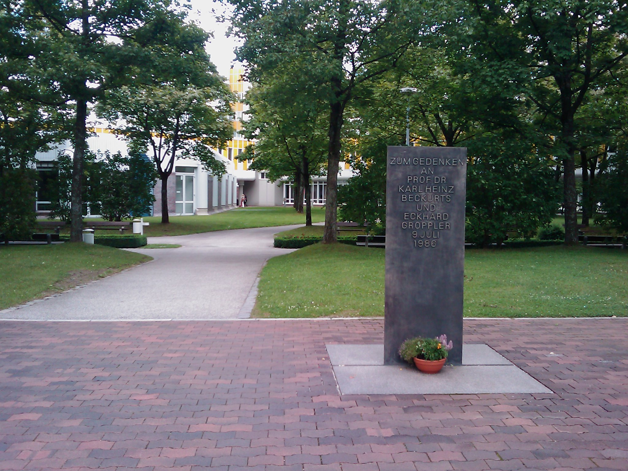 Memorial at Siemens Compound in Neuperlach reminding the assassination of Karl Heinz Beckurts and Eckhard Groppler on July 9th, 1986.